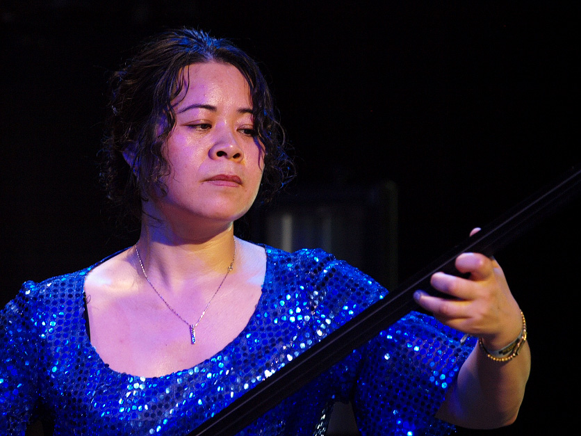 Xu Fengxia, moers festival 2008